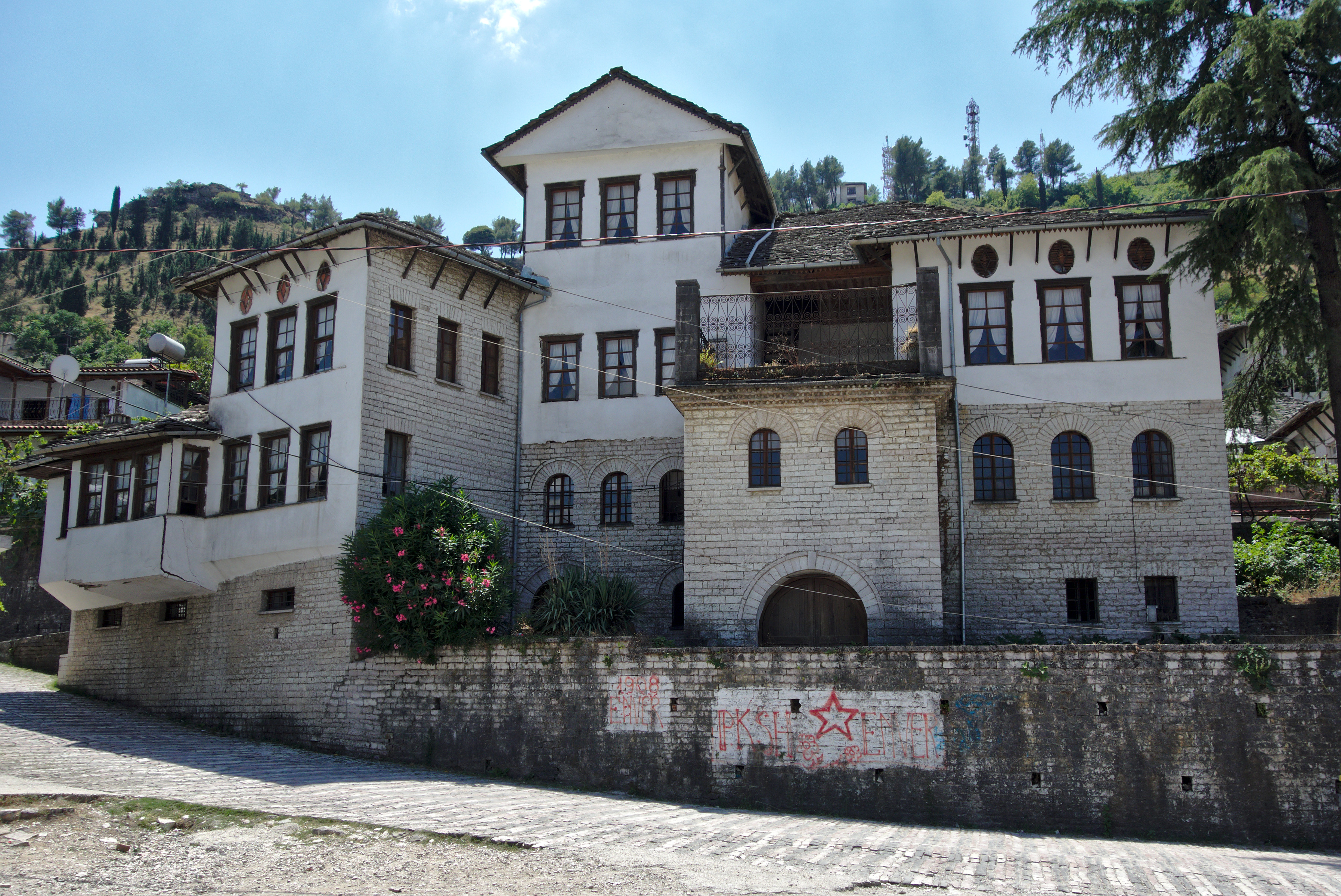 Enver Hoxha's place of birth and now Ethnological Museum in Gjirokastra